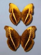 Upper sides of Harma theobene superna (Fox, 1968) collected 5-12th May 2004 in the Gabela forest area of Angola